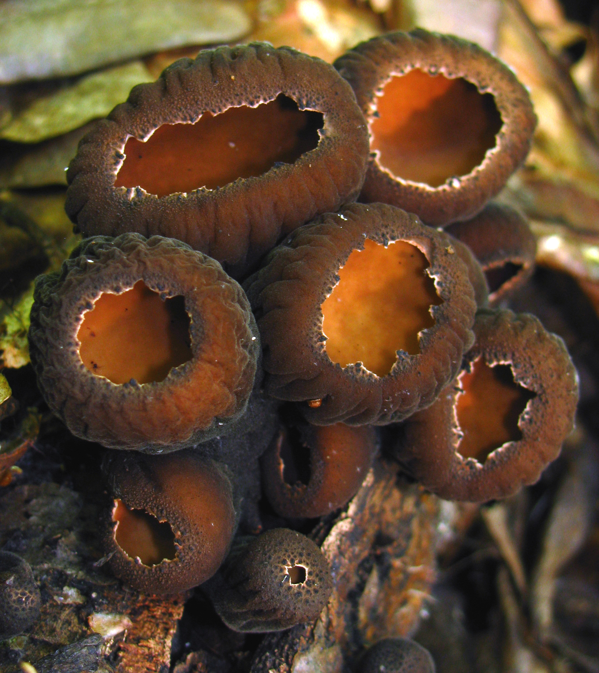 The discomycete fungus, species Galiella rufa. Specimens photographed in Strouds Run State Park, Athens, Ohio, USA.